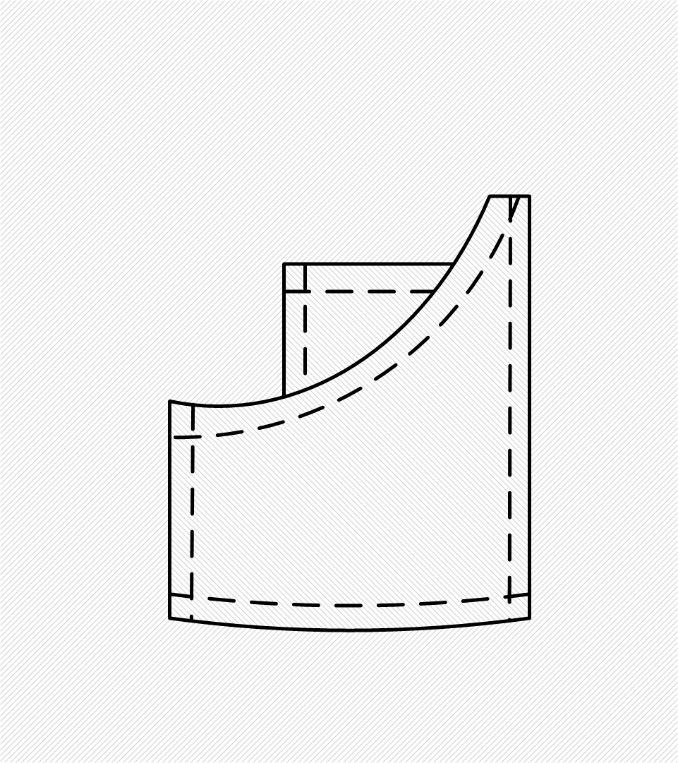 Diagram J patch pocket with a watch pocket.